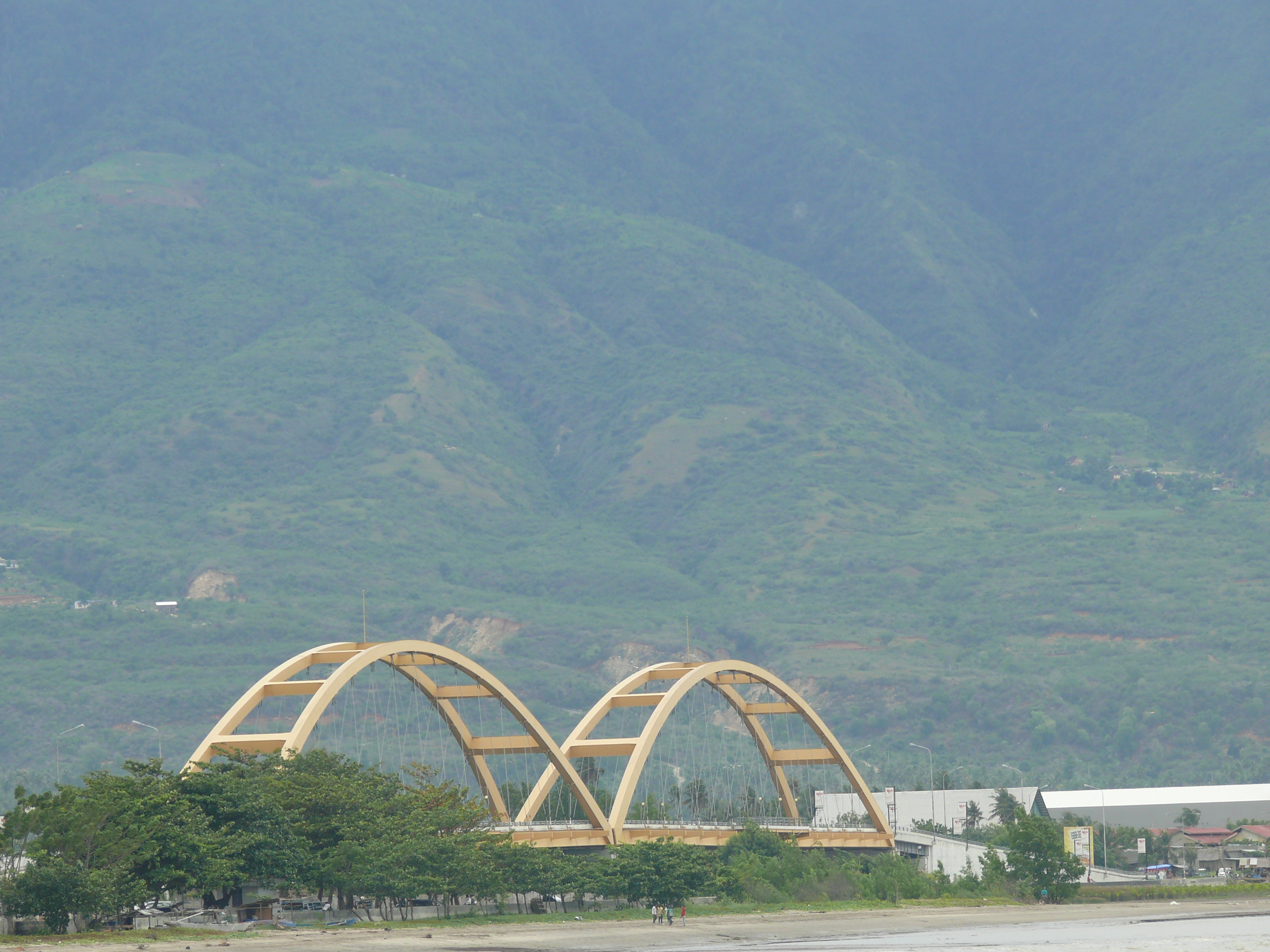 Palu Landscape (Bridge Yellow)